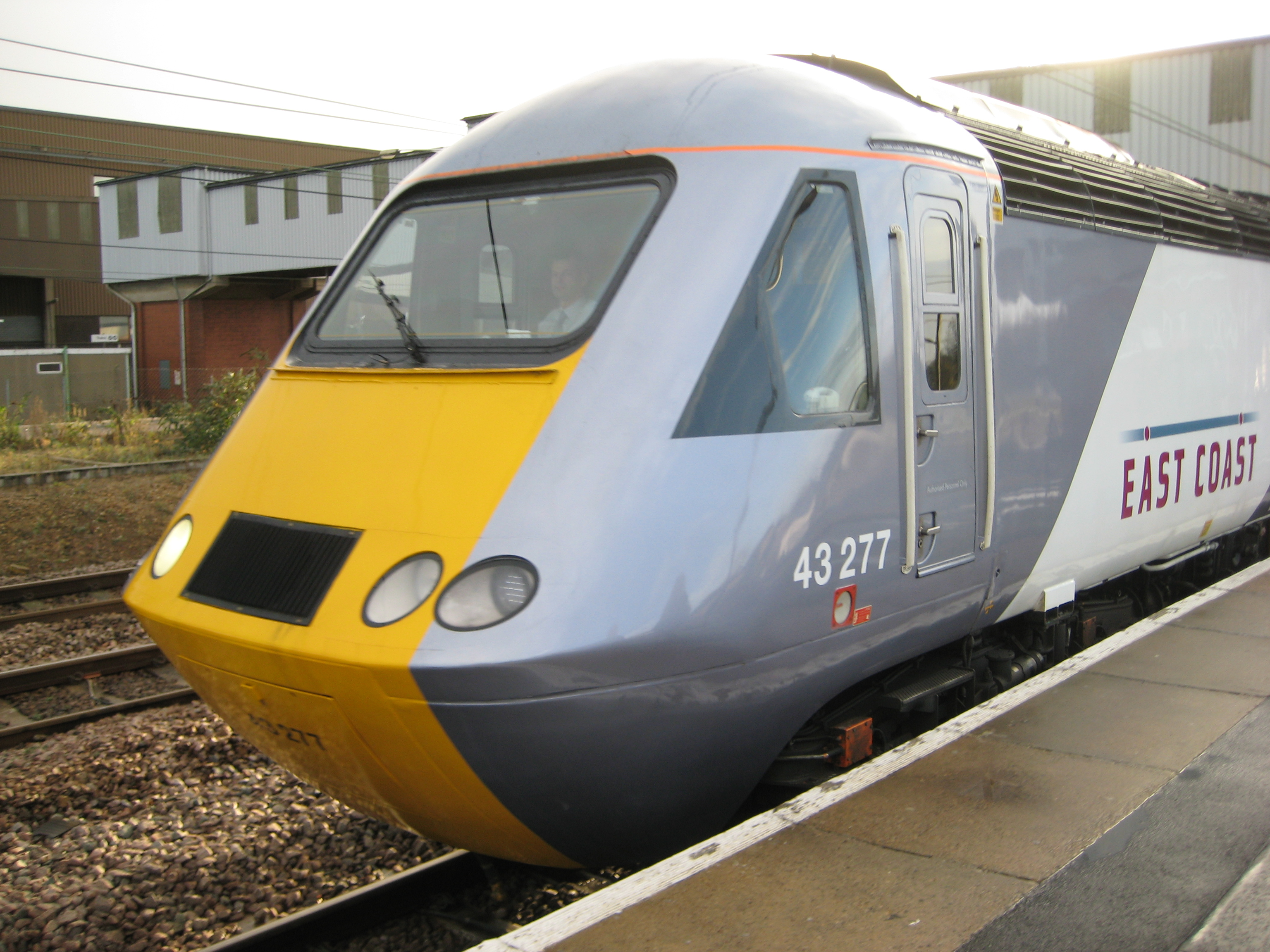 Photograph of the first liveried East Coast 125 set arriving at Peterborough station on the launch day at 8.53am. Taken in rather a hurry before boarding the said train, but should suffice until a better image is taken. East Coast use these on their services from London King's Cross to Aberdeen, Inverness, Hull Paragon, Harrogate and Lincoln, and from Leeds to Aberdeen. None of East Coast's InterCity 125 services are regular - all only have one train per day in each direction except the service from London King's Cross to Aberdeen, which has 3 trains per day in each direction, for a total of 8 East Coast services per day in each direction using the InterCity 125.